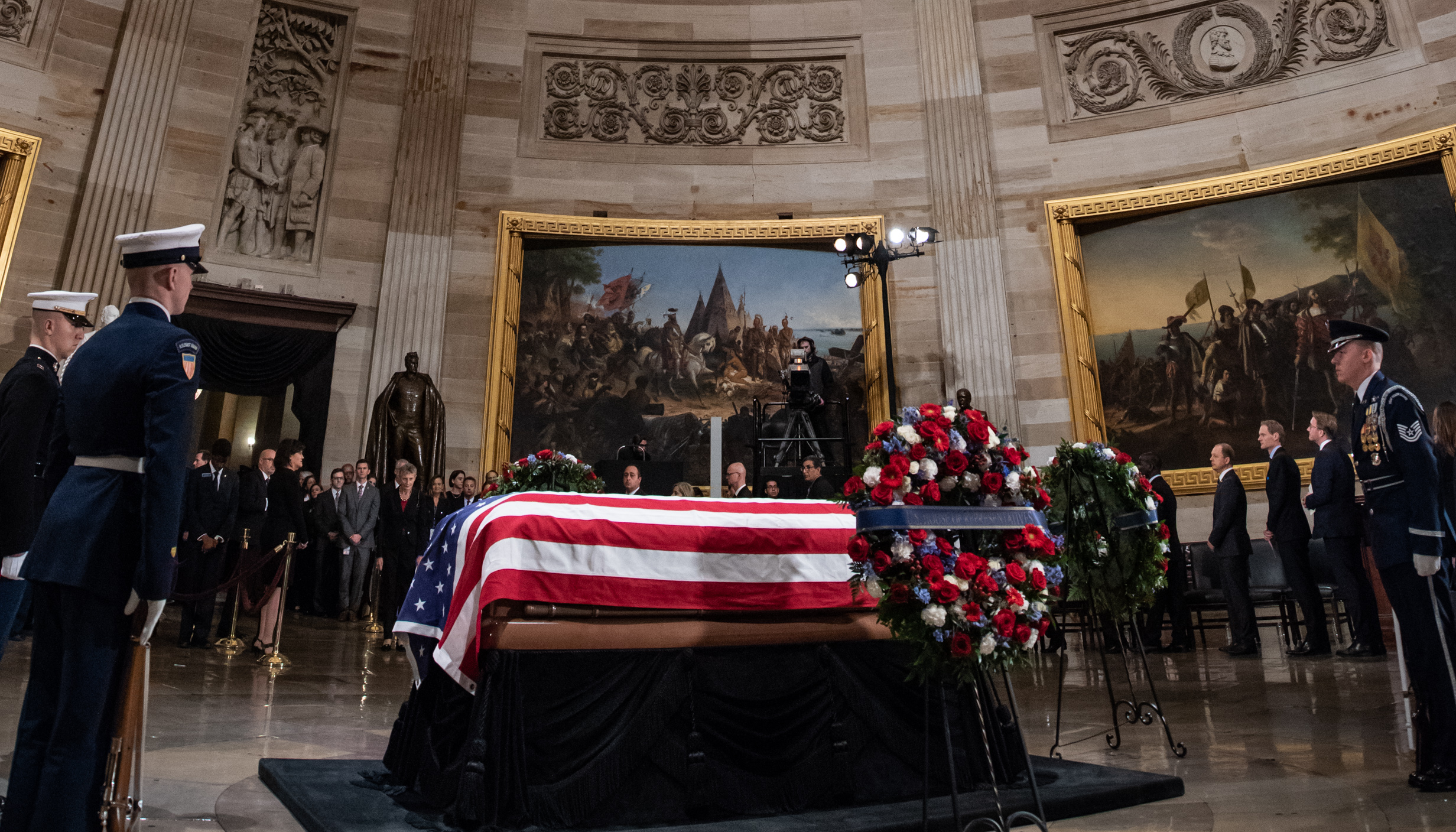 George H. W. Bush lies in state in the rotunda of the Capitol